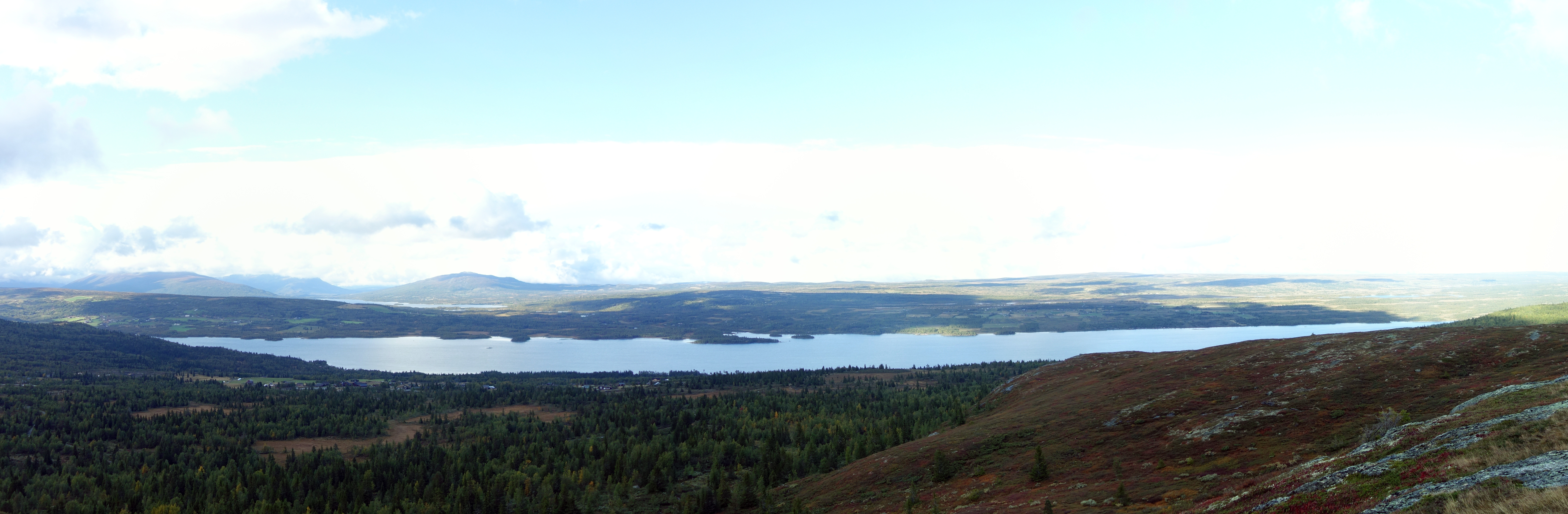 Tisleifjorden in Norway as seen from the top of Auenhaugen.